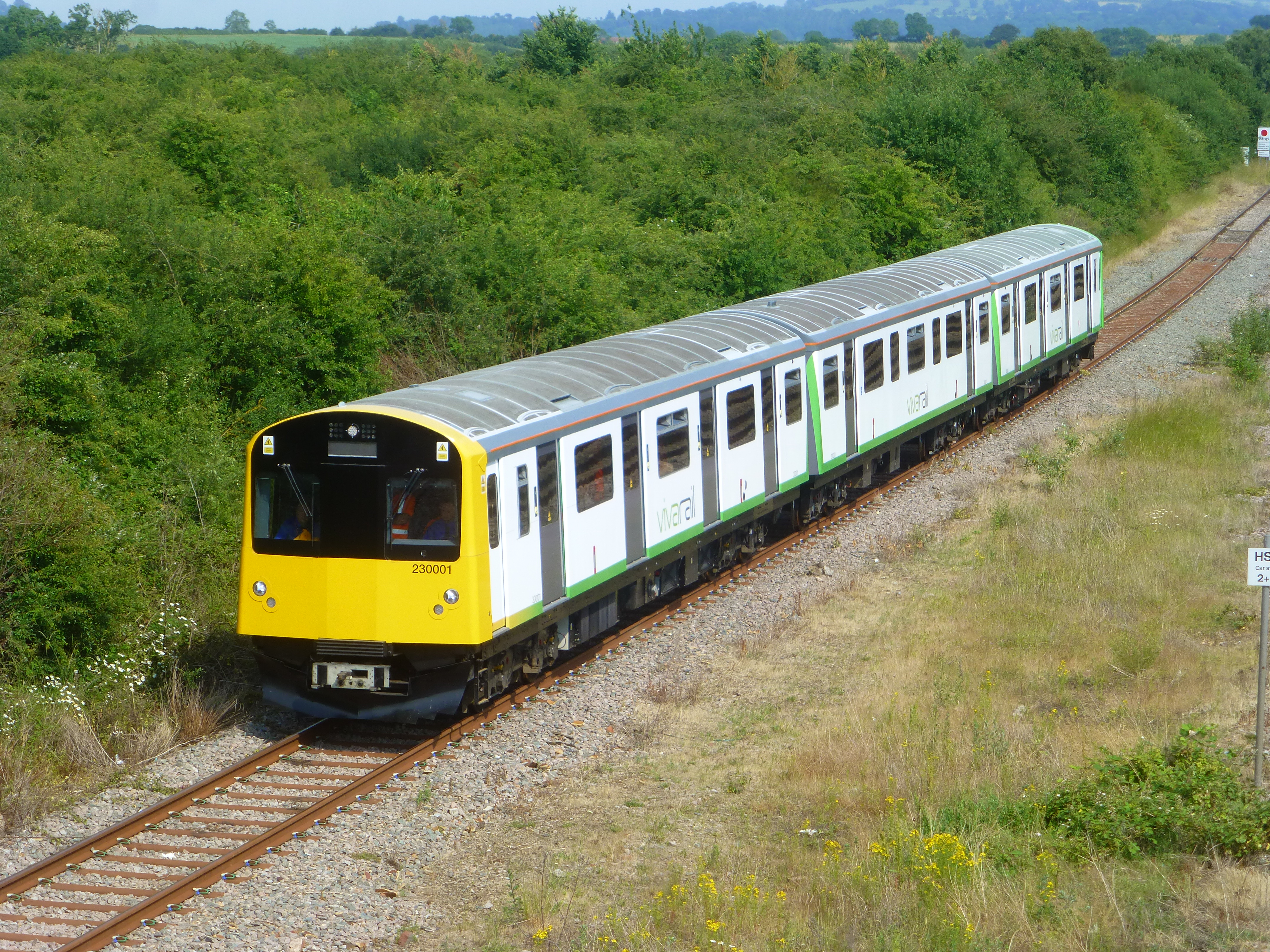 D-Train-230001-Approach-Honeybourne-P1410128